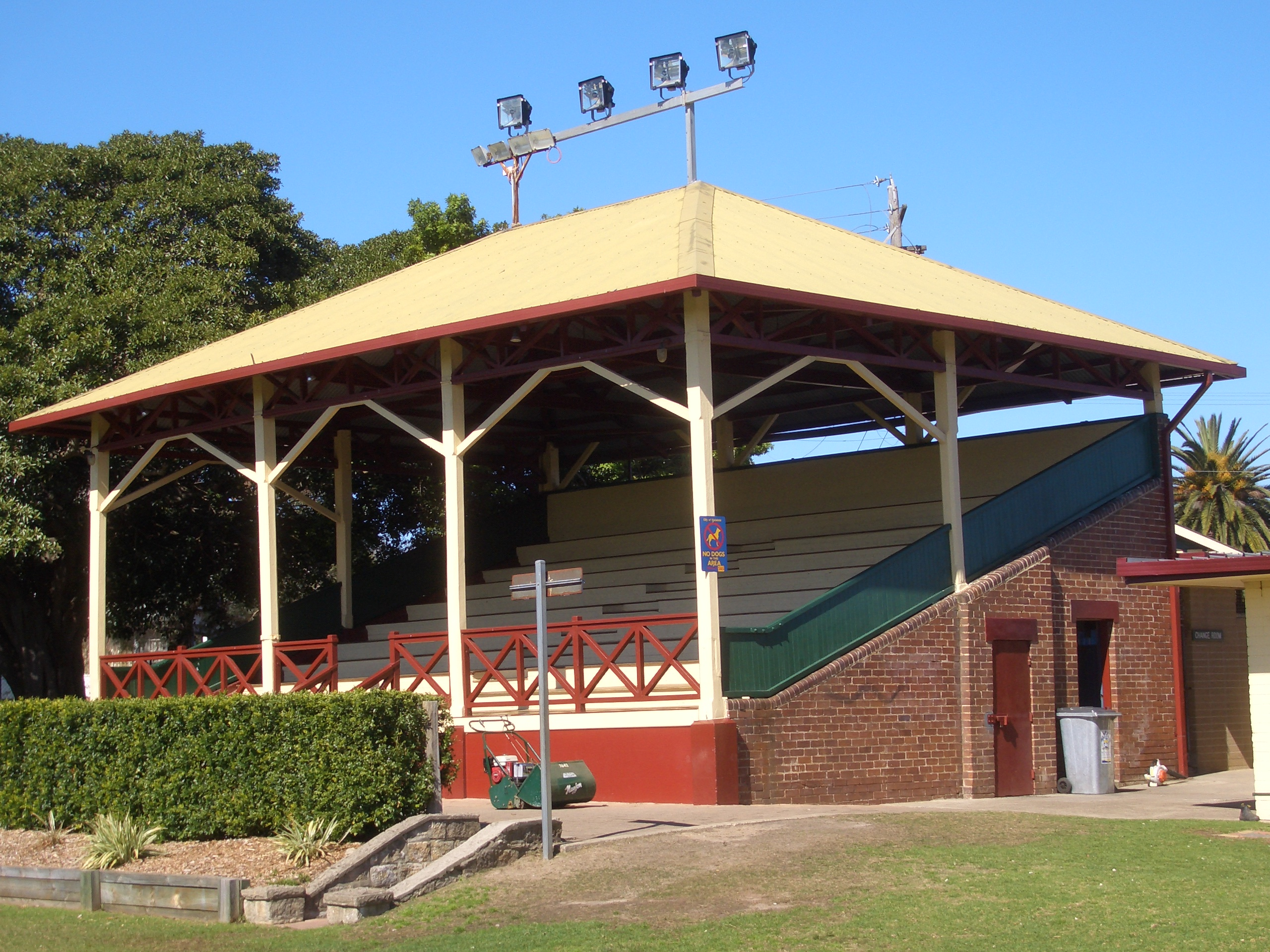 Bexley Park Grandstand, Sydney